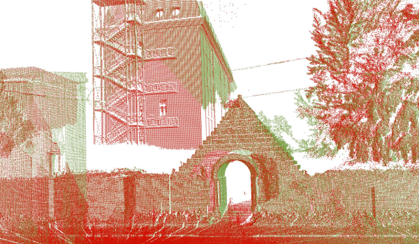 The point sets from File:Registration outdoor.png registered together successfully.